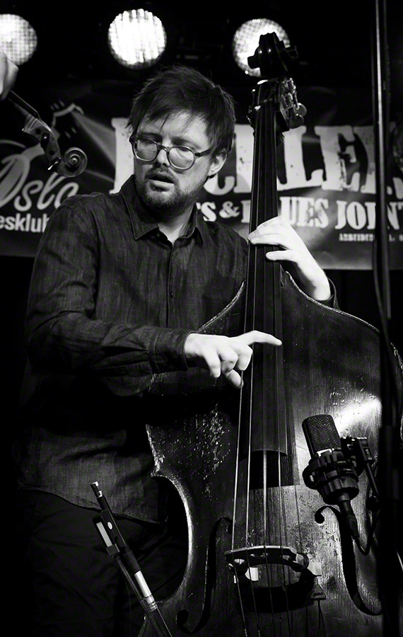 Ole Morten Vågan performs with Gammalgrass at the stage of Buckleys. The concert was part of the Oslo Jazz Festival in Norway and took place on 20. August 2016. Lineup: Ola Kvernberg (fiddle) Ole Morten Vågan (double bass) Stian Carstensen (guitar)